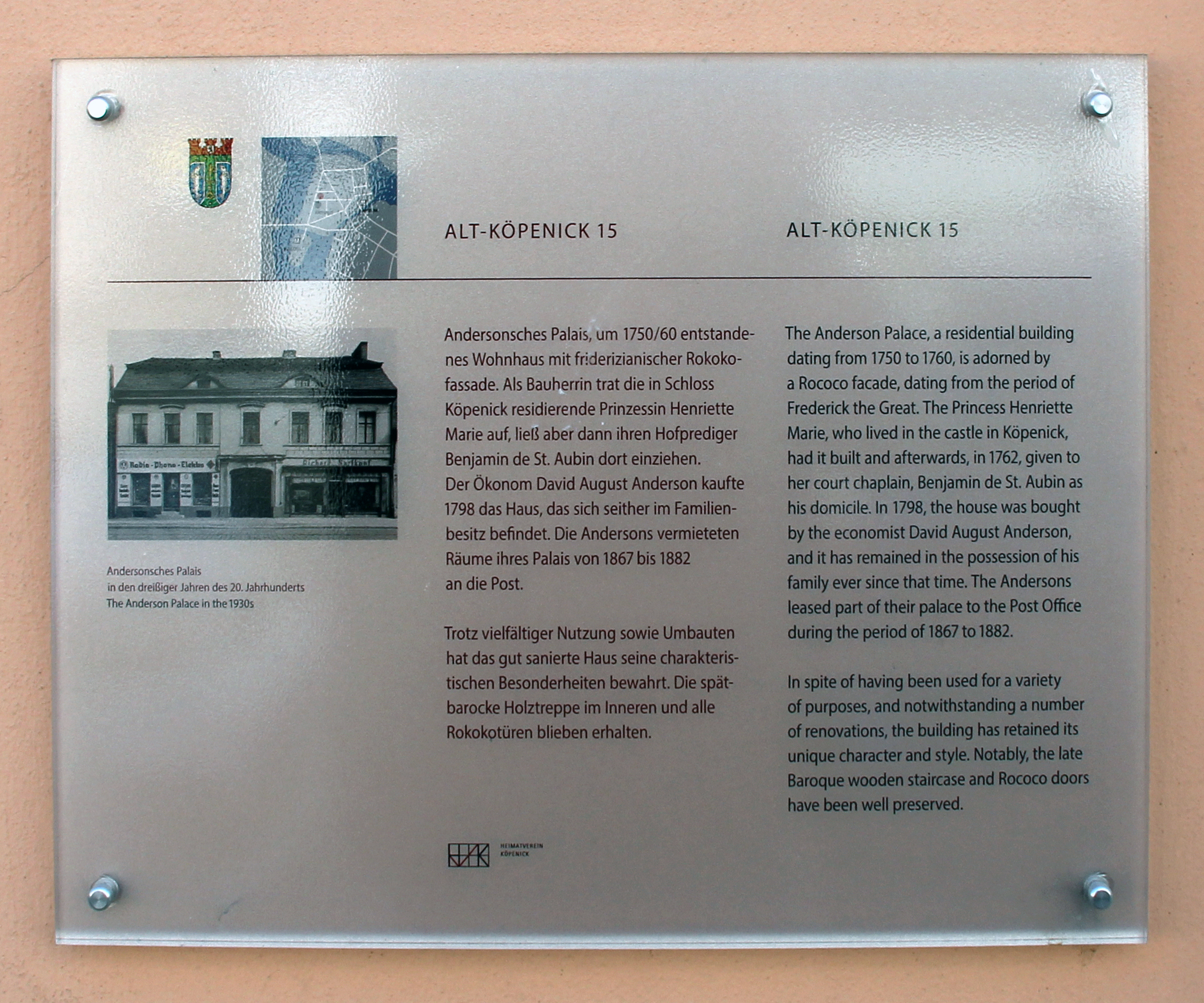 Memorial plaque, Andersonsches Palais, Alt-Köpenick 15, Berlin-Köpenick, Deutschland